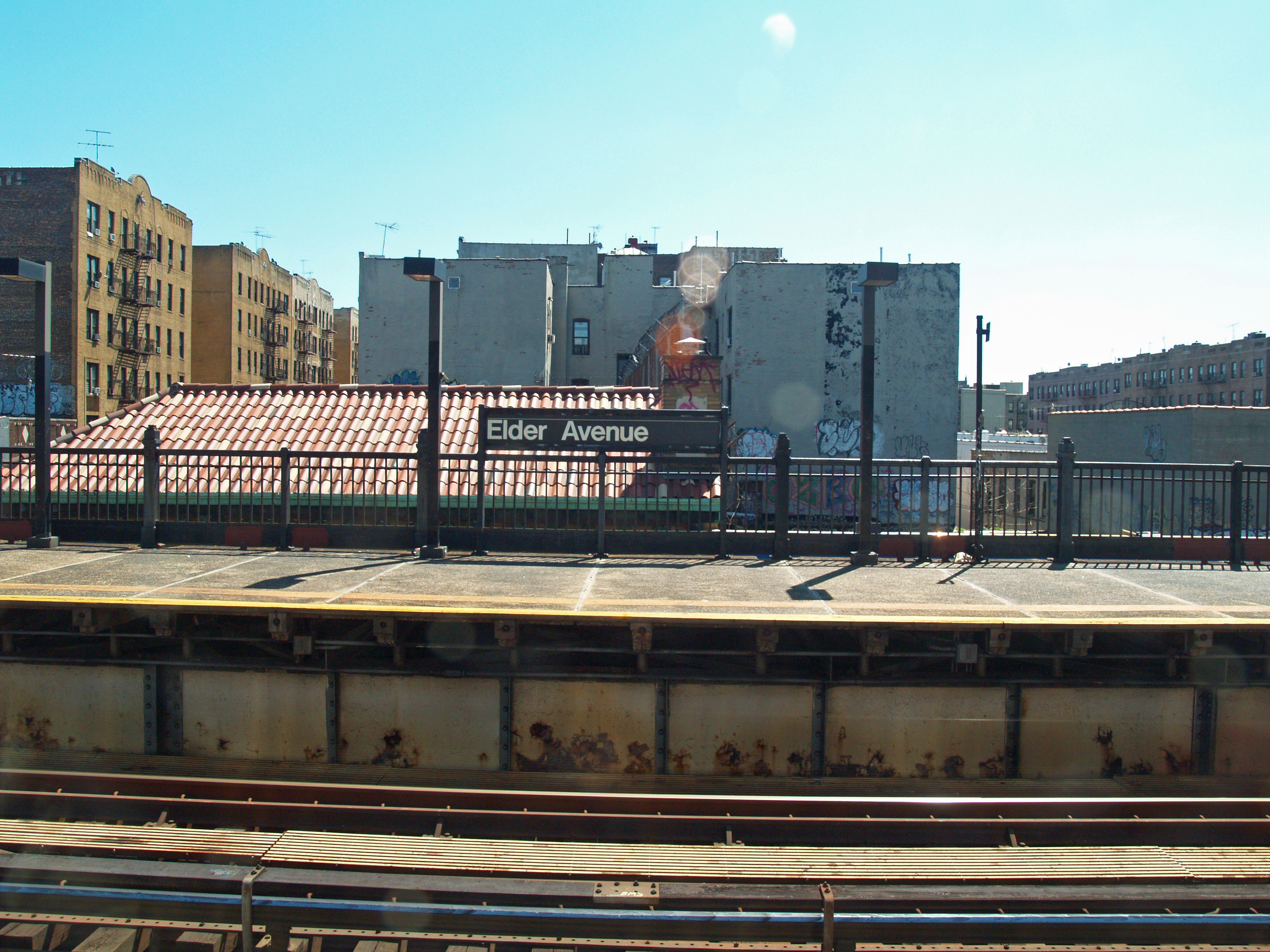 Elder Avenue (IRT Pelham Line) by David Shankbone